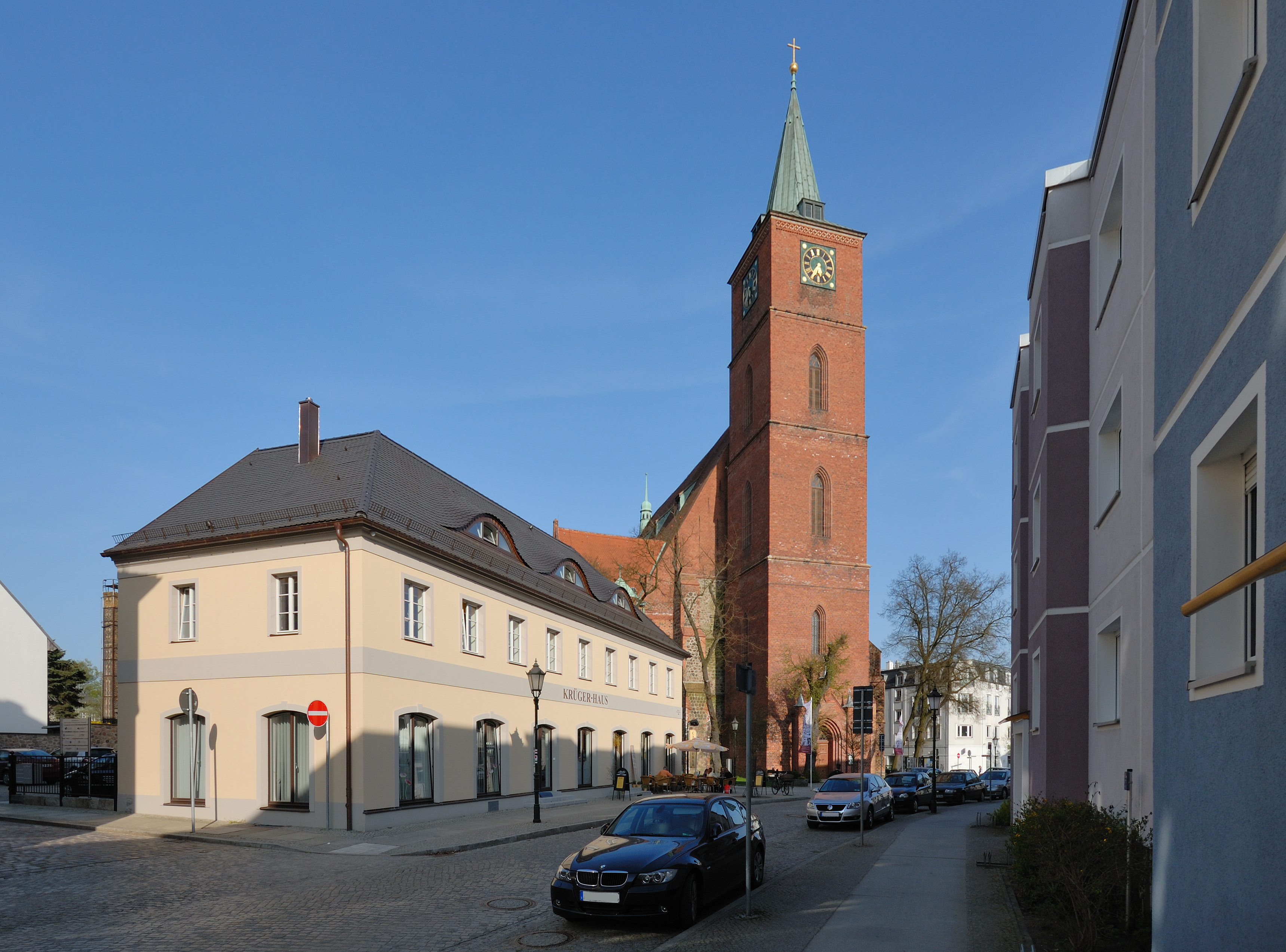 Northwestern view of St. Mary church in Bernau near Berlin.